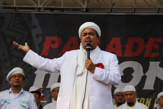 Habib Muhammad Rizieq Shihab, founder of Islamic Defenders Front.